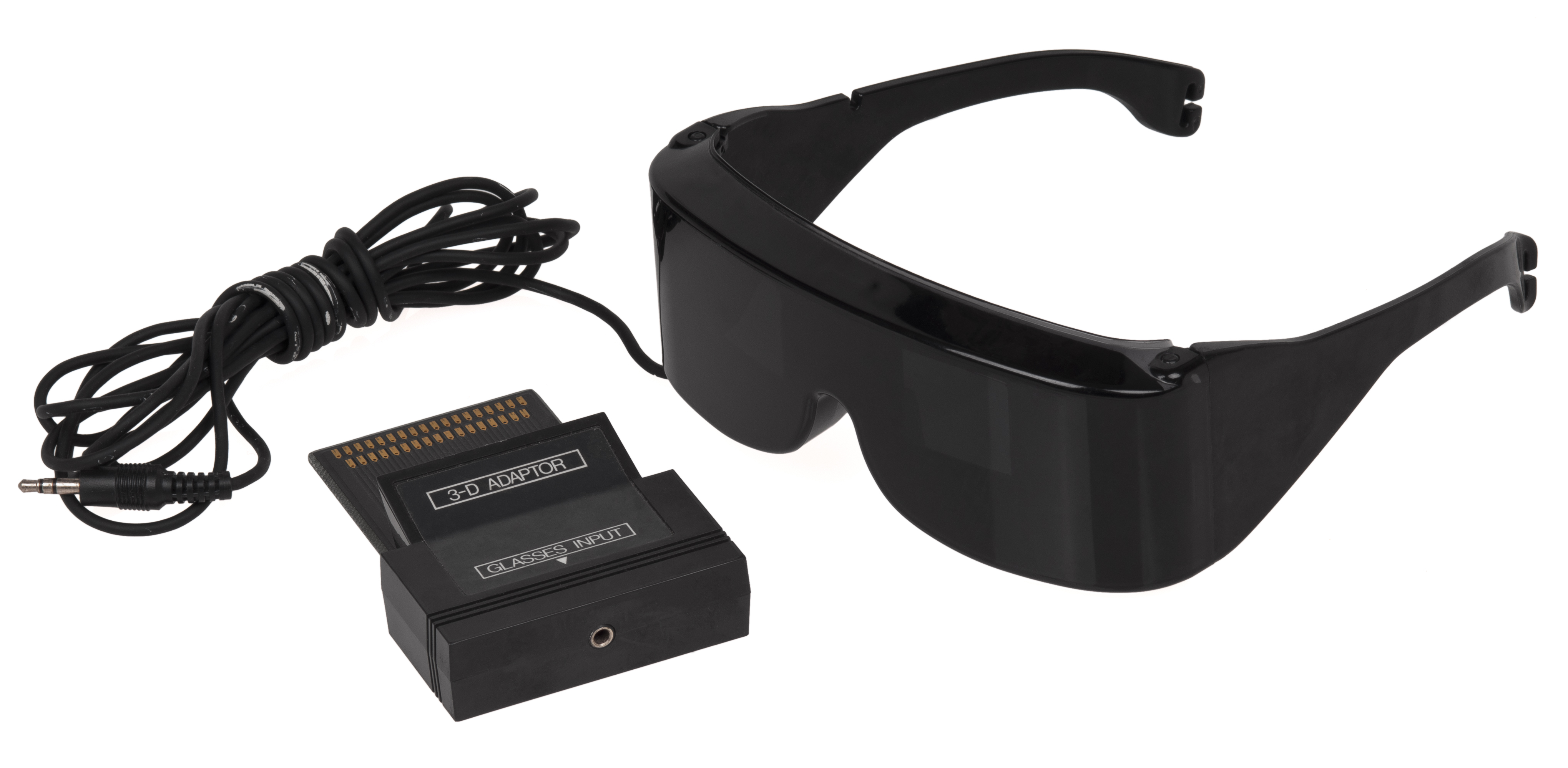 The 3D glasses and card adapter for the Sega Master System.